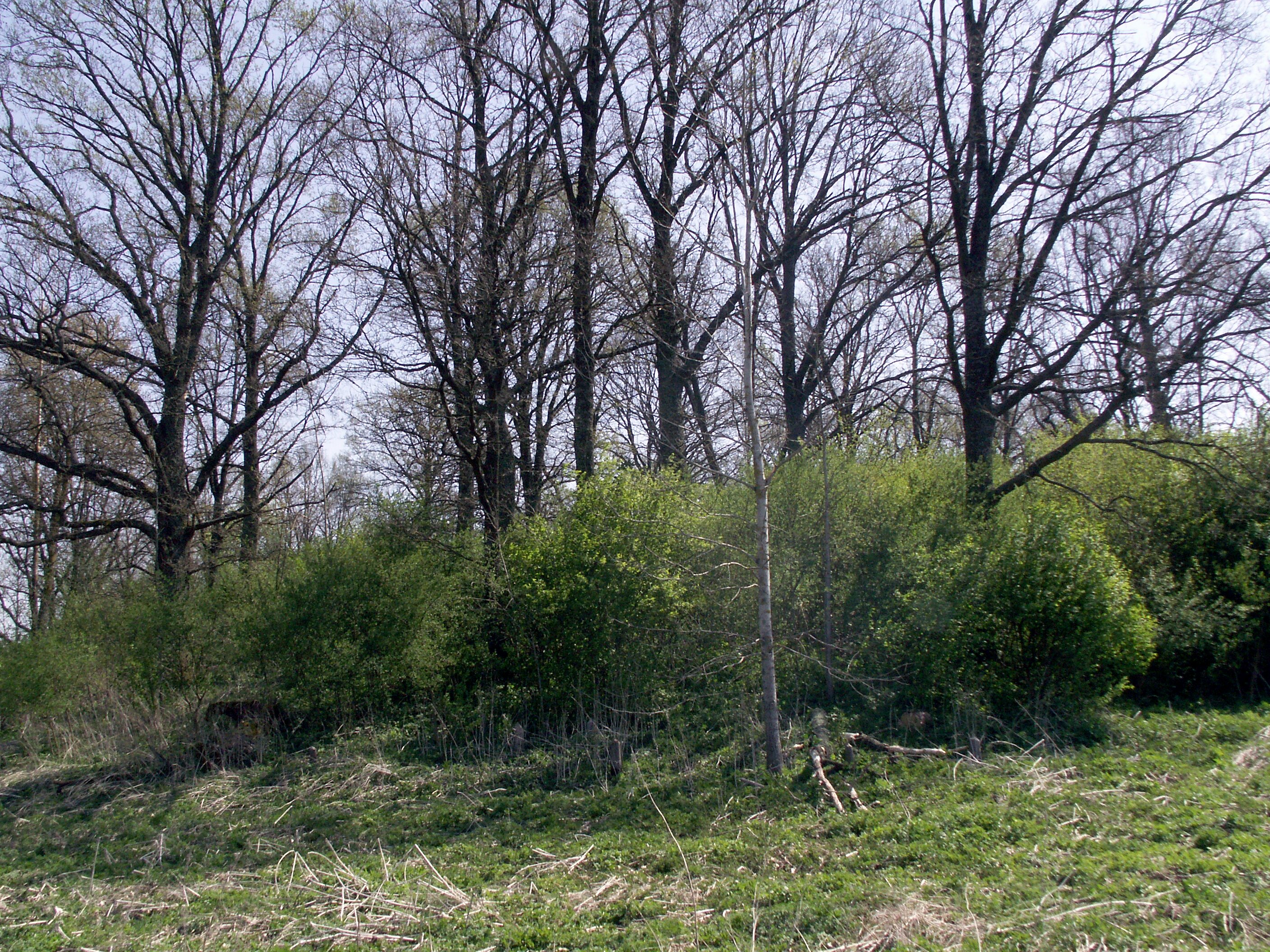 Dubičių hillfort, Varėna district, Lithuania